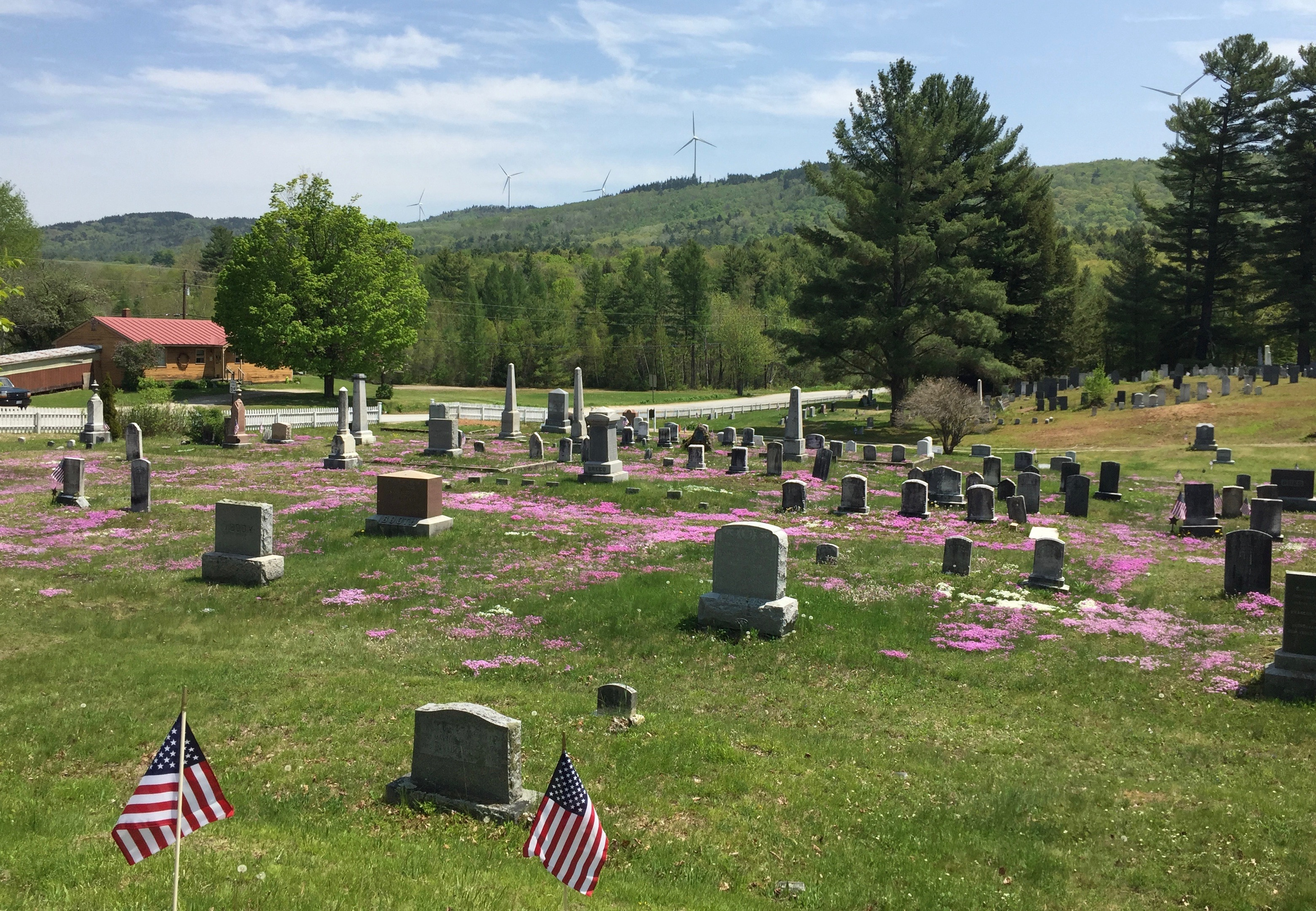 View of Lempster Mountain Wind Power Project from cemetery in East Lempster, New Hampshire, May 2016